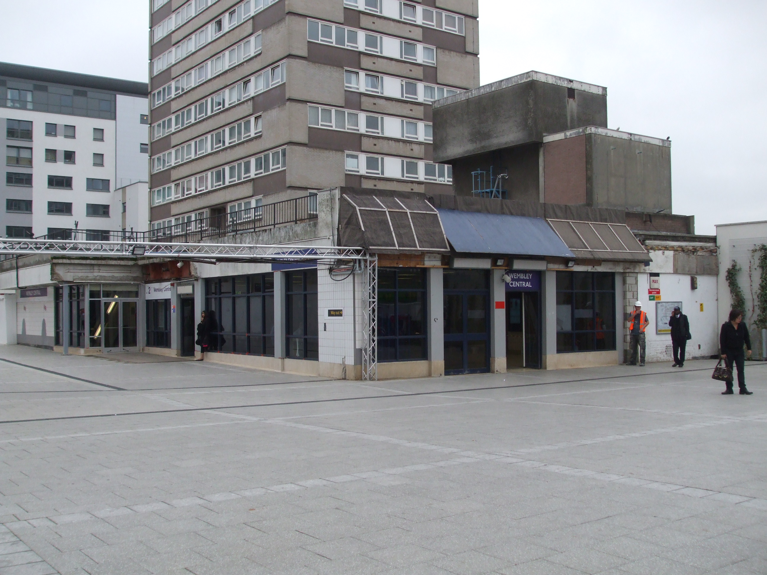 Wembley Central station main building undergoing redevelopment as of late October 2009.